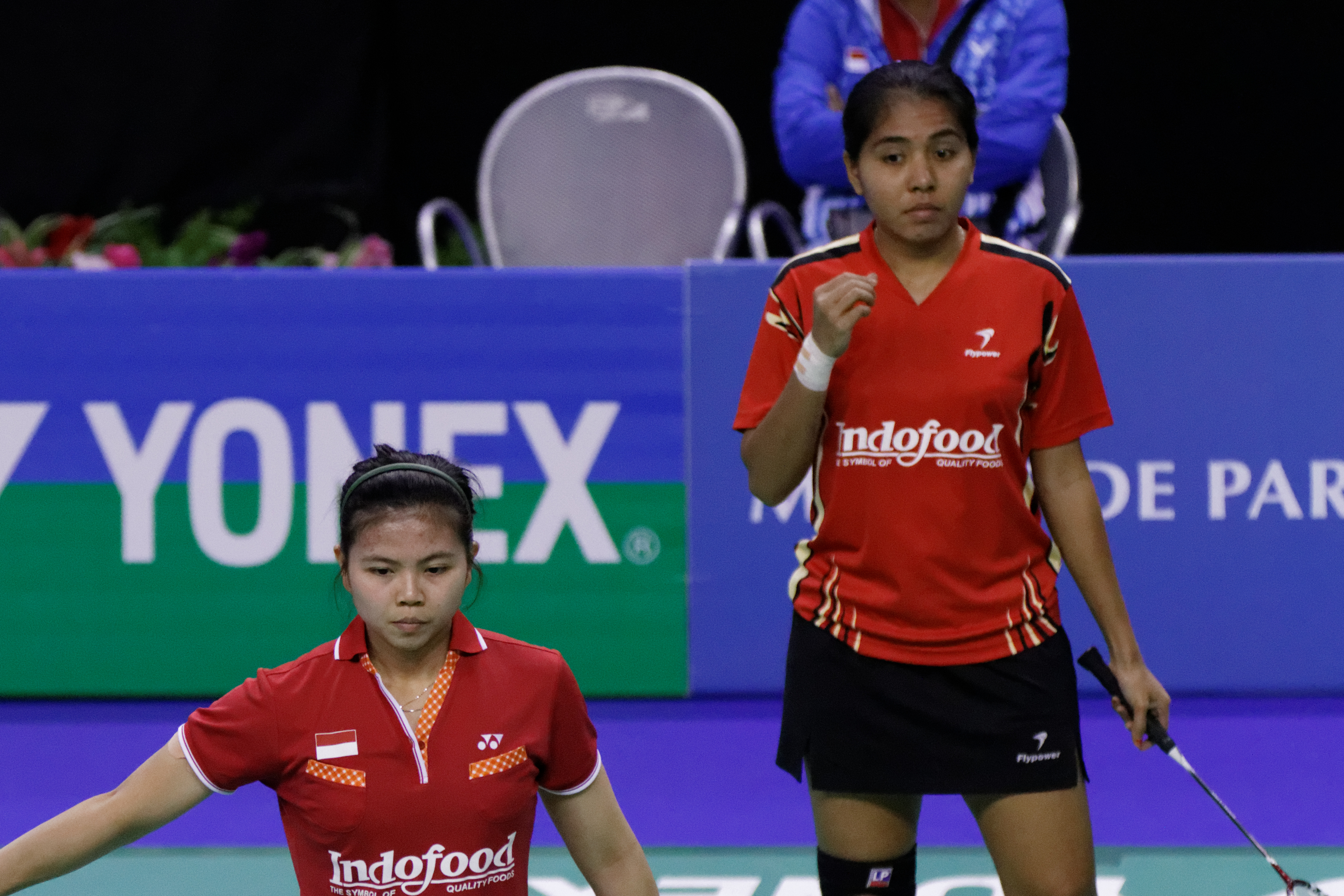 2013 French open. Women's doubles eightfinal. Ma Jin and Zhong Qianxin vs Nitya Krishinda Maheswari and Greysia Polii.